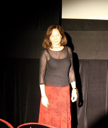 Nancy Kwan, at a Toronto International Film Festival showing of Hollywood Chinese. This photo is taken from about 100 feet away lol....on 8 second exposure resting on back of someones seat, after the film at the Q&A.